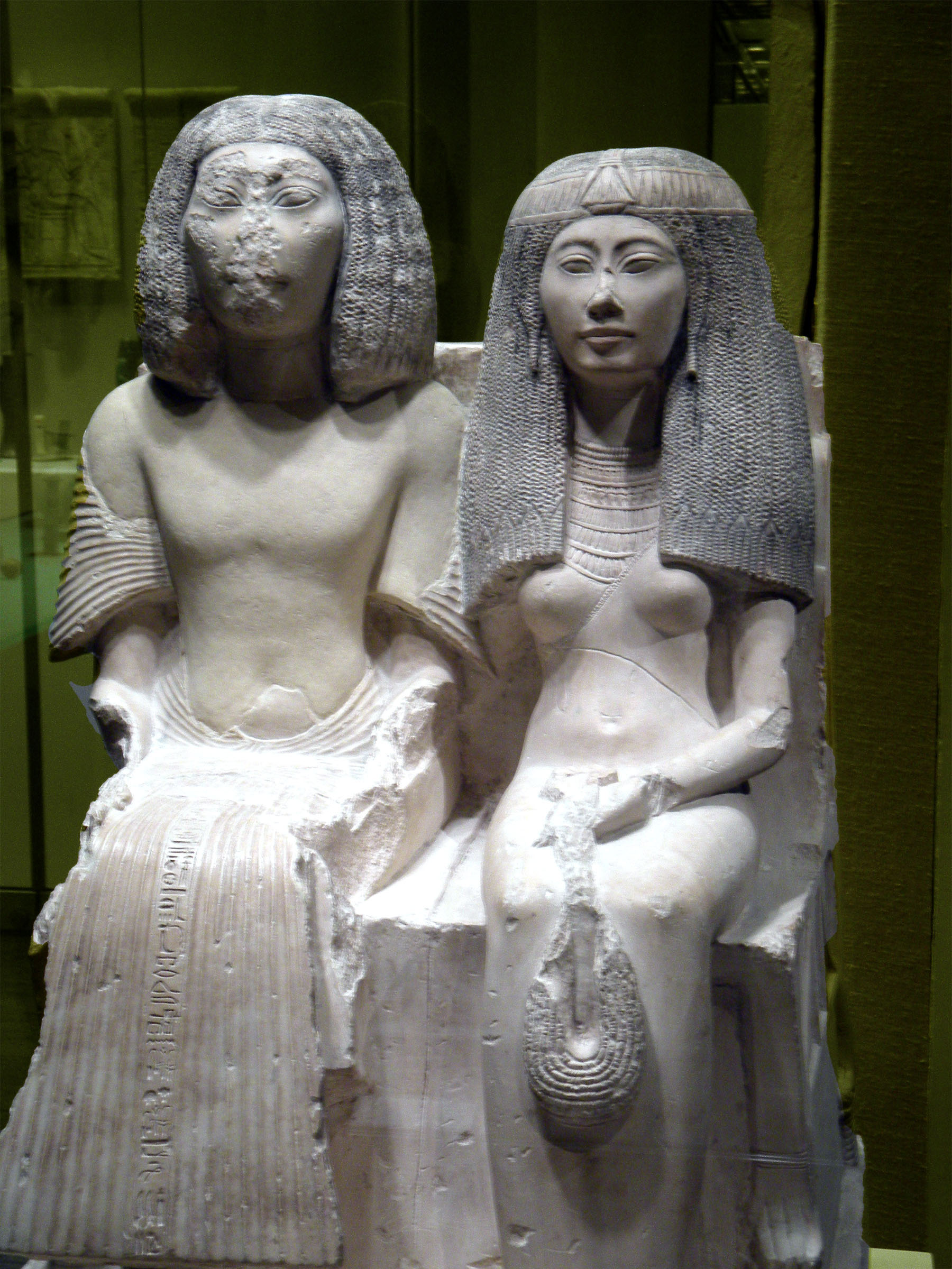 Yuny and His Wife, Renenutetca. 1290–1270 B.C.E.; early Dynasty 19; late reign of Sety I–early reign of Ramesses II; New KingdomEgyptian; AsyutLimestone; H. 34 in. (86.4 cm)These figures represent Yuny seated next to his wife Renenutet. Yuny, who lived in the city of Asyut, was a chief royal scribe and holder of many other offices, perhaps including that of physician. Additional inscriptions on the base of the statue further elaborate Yuny's responsibilities. On the center fold of Yuny's pleated skirt is an inscription that reads: "May everything that comes forth upon the offering table of [the god] . . . and all pure food that comes forth from the Great Enclosure [the temple complex at Heliopolis] be for the chief scribe, royal scribe of letters, Yuny, justified."Renenutet affectionately places her right arm around her husband's shoulders. On the back of the statue she is described as a chantress, or temple-ritual singer, of Amun-Re. In her left hand, she holds by its metal counterweight a heavy bead necklace called a menat. Menat necklaces were ritual implements that were held in the hands and shaken like cymbals, especially in the service of the goddess Hathor.Appropriate to their high secular and religious positions, Yuny and Renenutet wear the elaborate wigs and fine linen attire fashionable in their time. Renenutet is adorned with a lotus fillet and a necklace called a broad collar. The beads are in the shape of nefer hieroglyphs (meaning "good" or "beautiful"), offering vases, and floral petals. Traces of black remain on the wigs. The couple sit together on a bench with elegantly carved lion-paw feet.On the back of the chair in both sunk and raised relief are two scenes illustrating the ancient Egyptian ideal of affection and remembrance among family generations. In the upper register, Yuny and Renenutet receive offerings from their son; in the lower, Renenutet offers food and drink to her parents.Rogers Fund, 1915 (15.2.1)